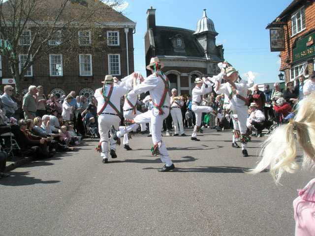 Bank holiday morris dancing in Petersfield Square Taken on Easter Monday, it was just one of the events at There for "Petersfield Station 150", an event to celebrate the 150th anniversary of the opening of the line between London and Havant (via Liss and Petersfield).